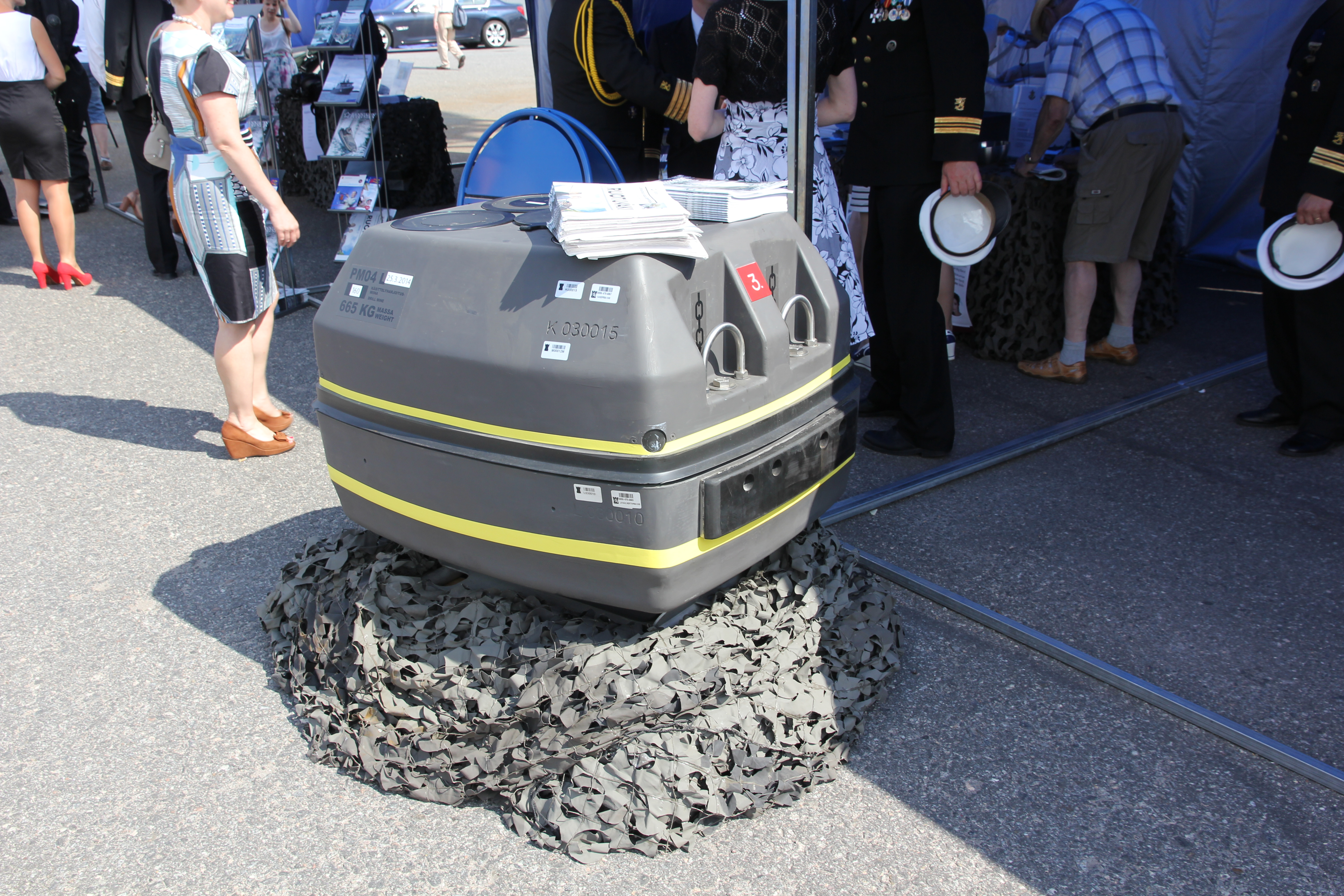 PM 04 bottom influence mine on display in Turku during Finnish Navy 2014 anniversary.